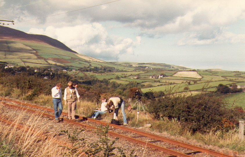 Border film unit at the Snaefell Railway on the Isle of Man